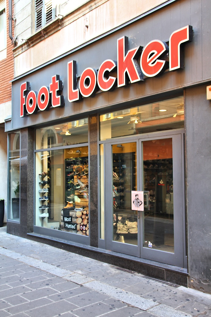 Foot Locker sportswear and footwear, fashion store in Piacenza, Italy.